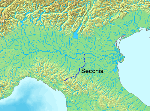 Location of Secchia river - Italy